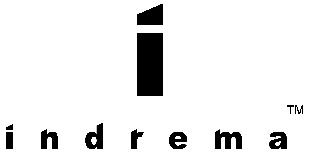 The logo of Indrema